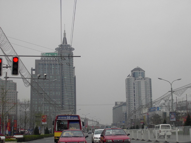 Depicted place: Chaoyangmen Outer Street